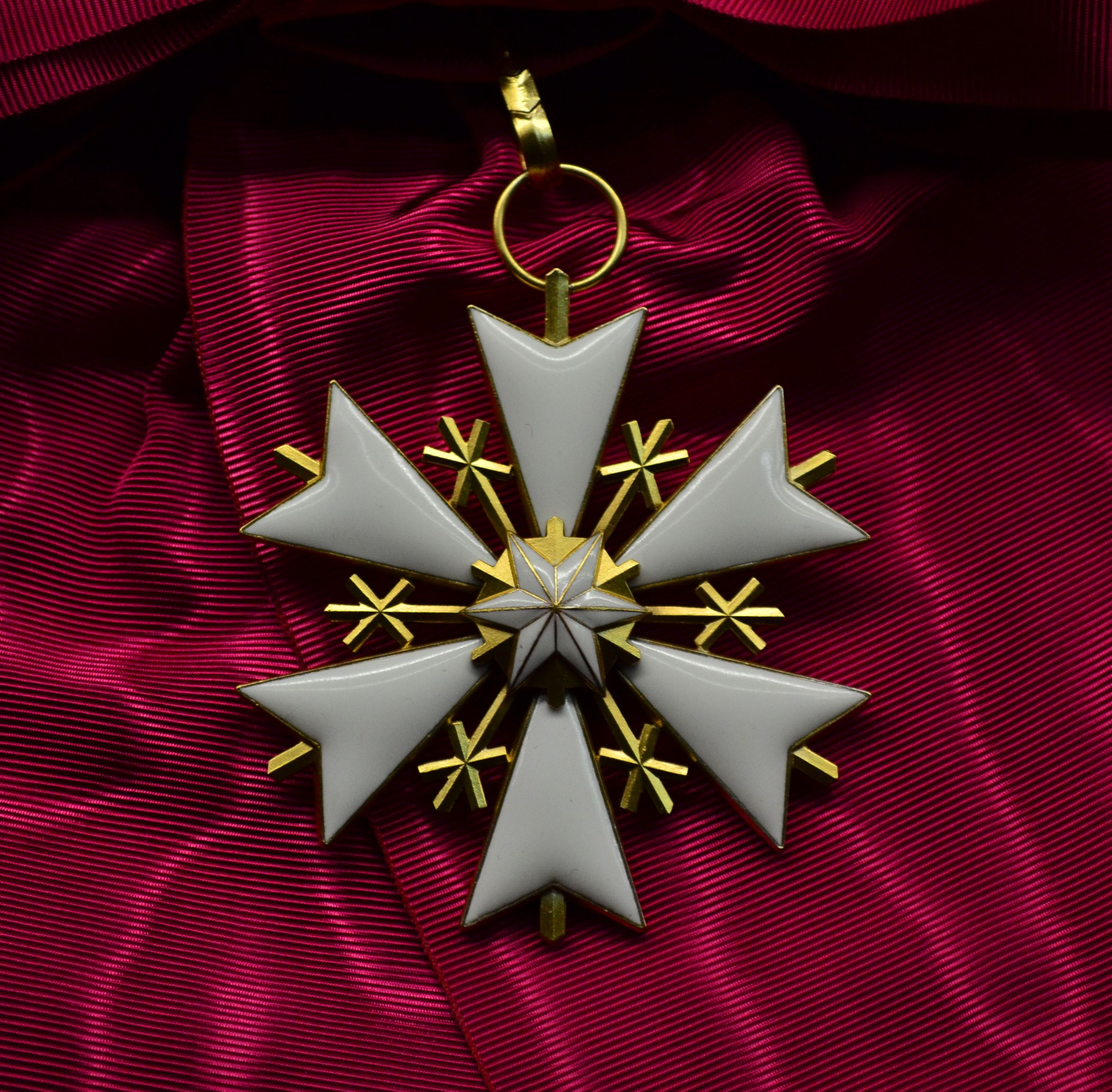 Estonia. Order of the White Star 1st class, badge and sash. The exhibition of the Estonian State Decorations at the National Library of Estonia in Tallinn.